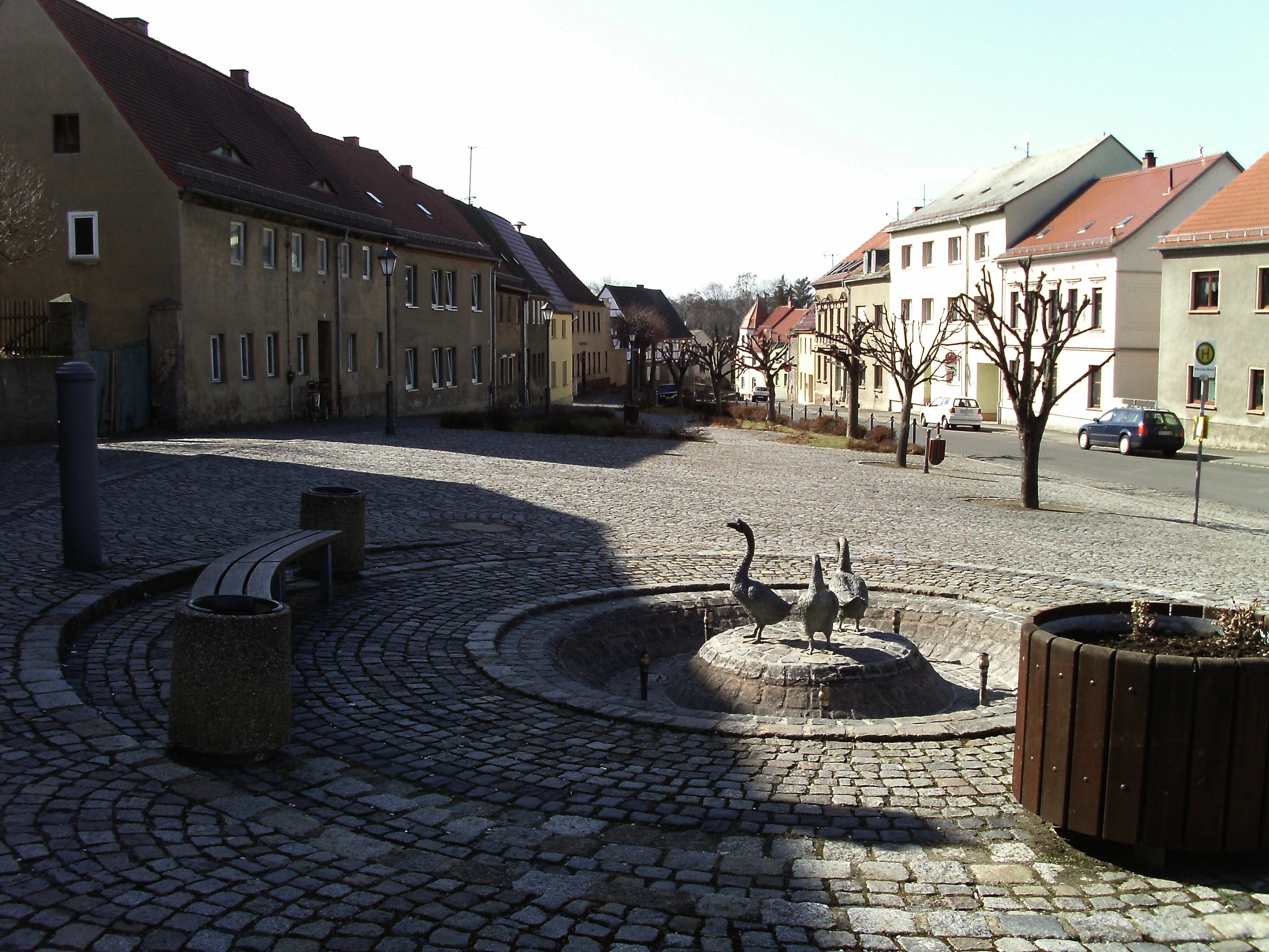 Gänsemarkt ("geese market") in Nerchau (Grimma, Leipzig district, Saxony)